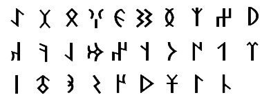 Ancient Bashkir runes used in the pre-Islamic period.